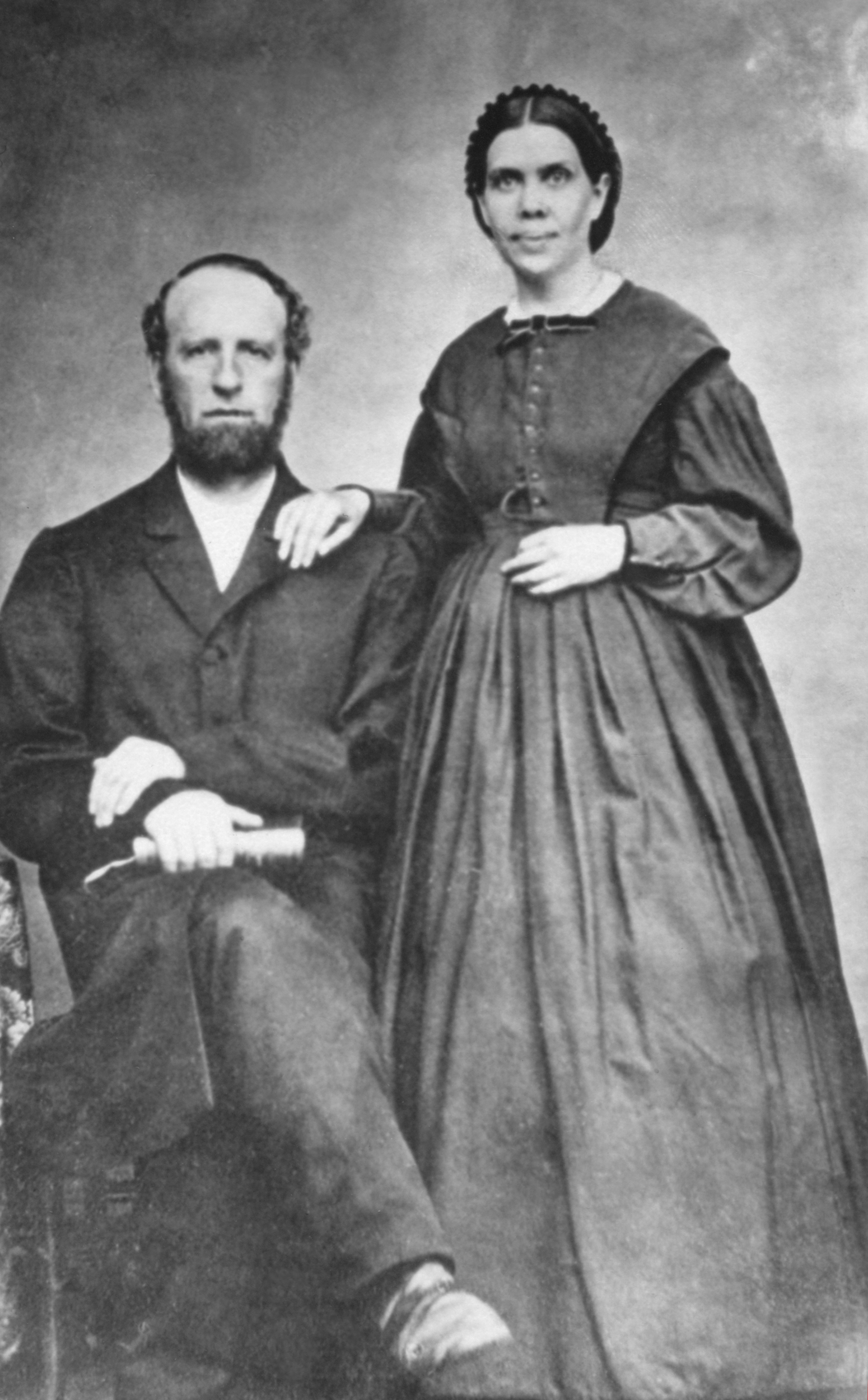 James and Ellen White, co-founders of the Seventh-day Adventist Church.